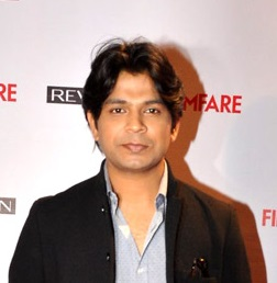 Ankit Tiwari at 60th Filmfare pre-awards party